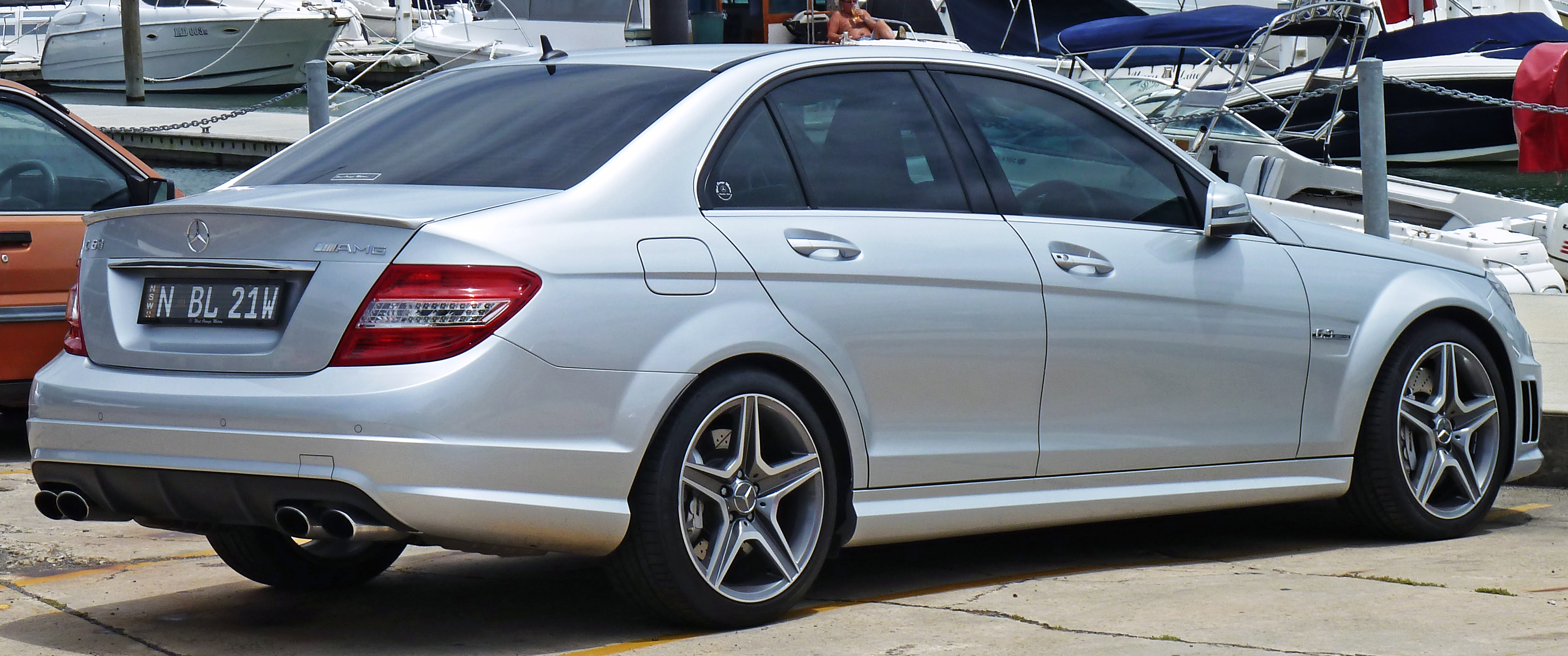 2010 Mercedes-Benz C 63 AMG (W 204) sedan. Photographed in Sans Souci, New South Wales, Australia.